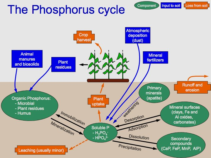 own work